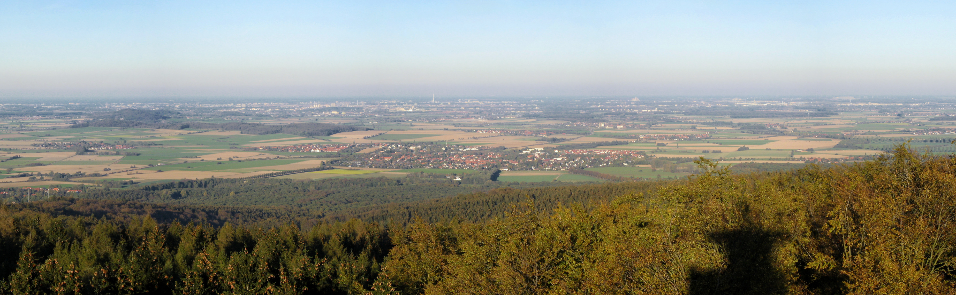 View from observation tower "Annaturm", Viewing direction NE